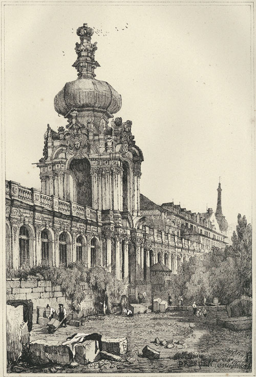 Kronentor, Zwinger, Dresden, Germany, Facsimiles of sketches made in Flandern and Germany London, 1833